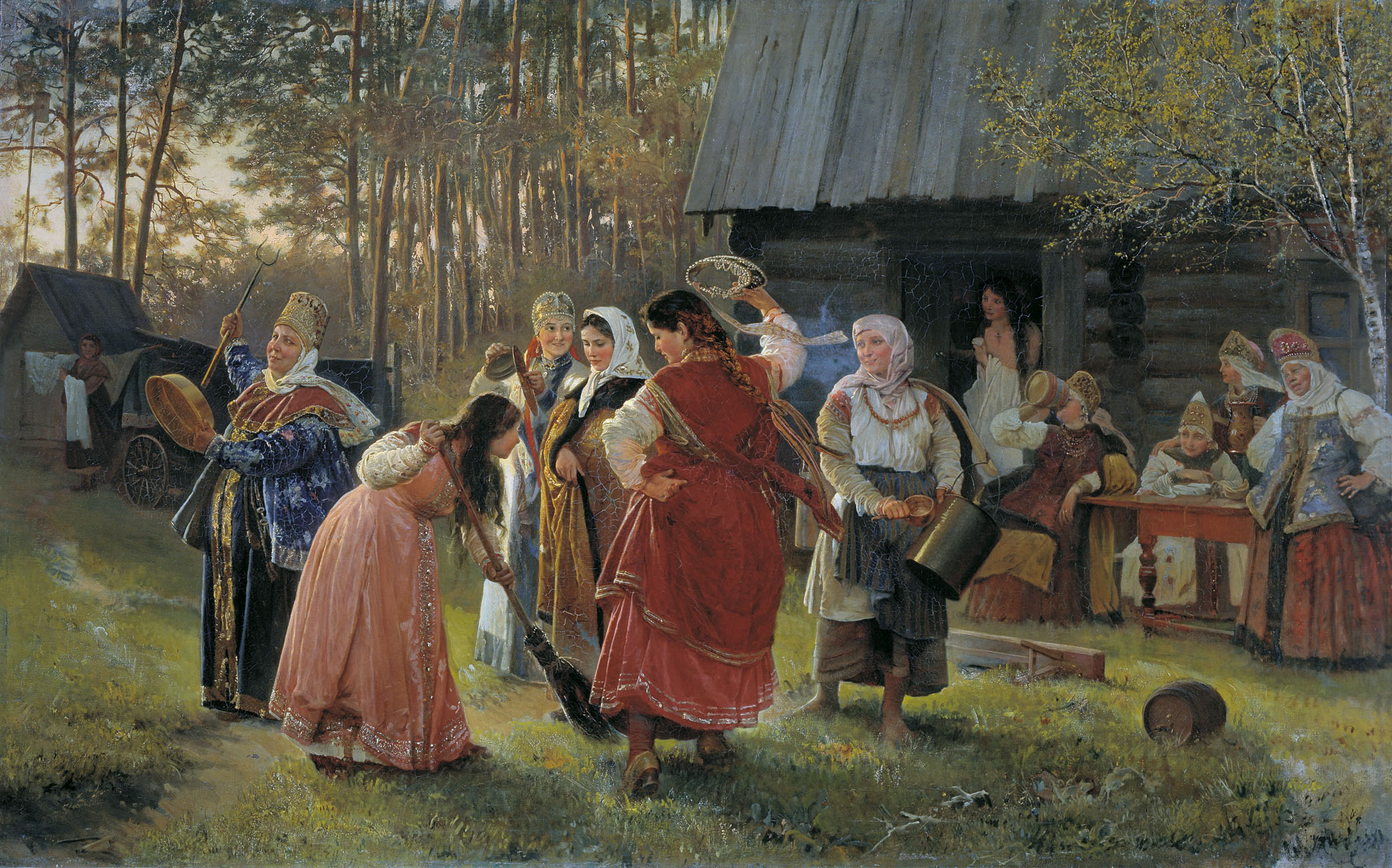 Alexey Korzukhin. Girlish BBQ, 1889.